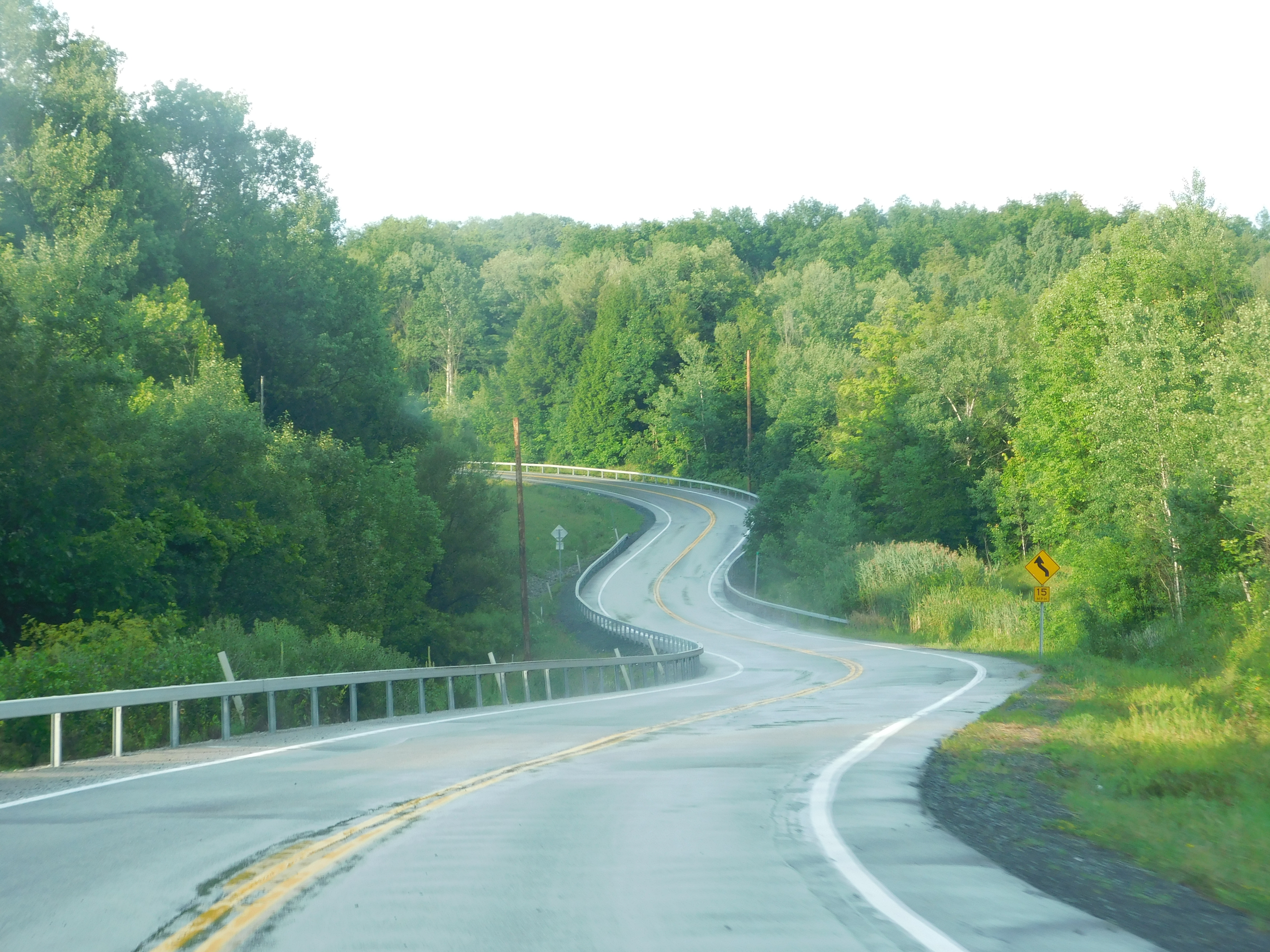 New York State Route 331